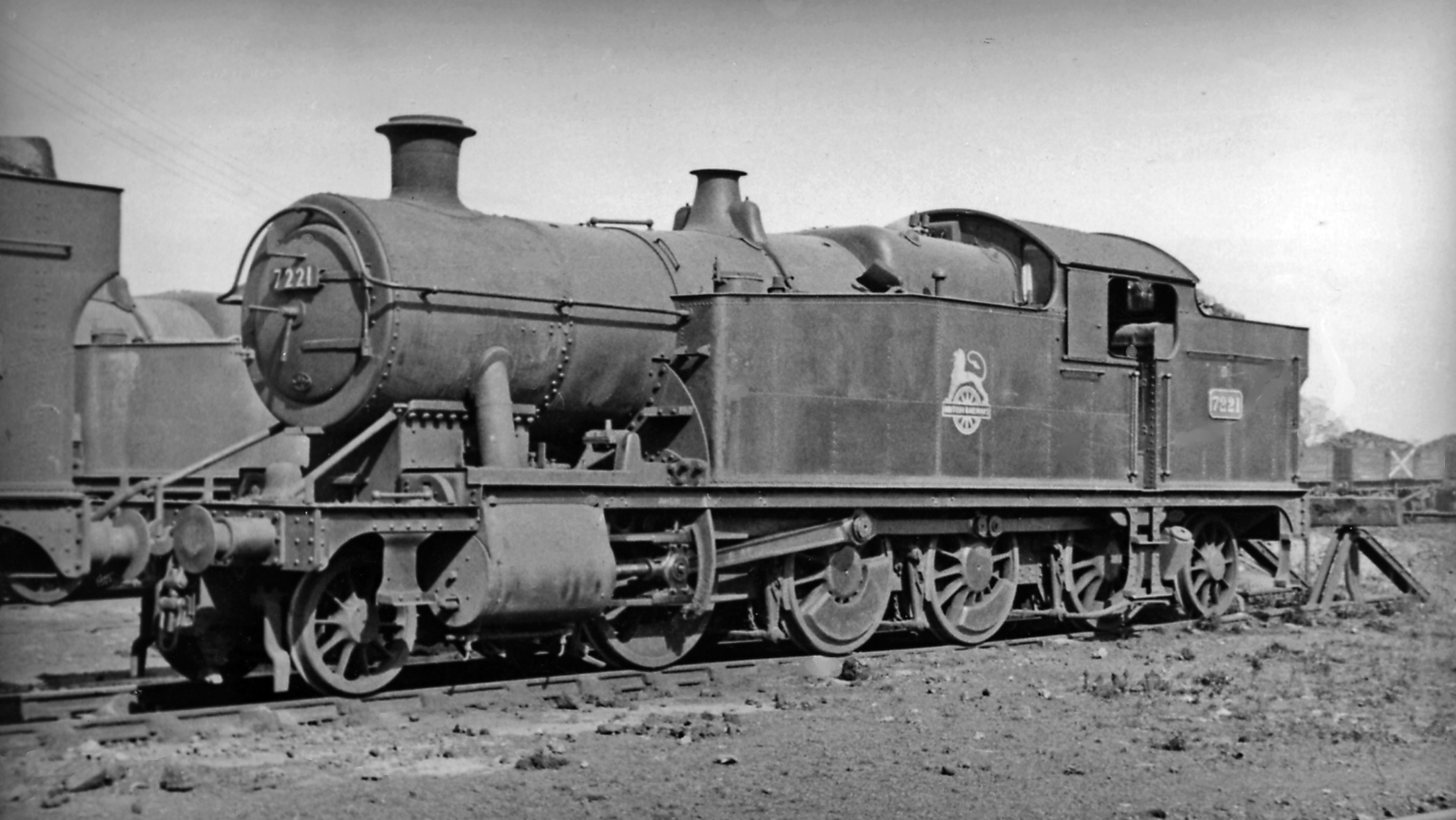 Ex-GWR 2-8-2T at Severn Tunnel Junction Locomotive Depot. No. 7221 is a Collett '7220' class rebuild (9/35) of 2-8-0T No. 5256 (built 12/25) and was withdrawn 11/64).